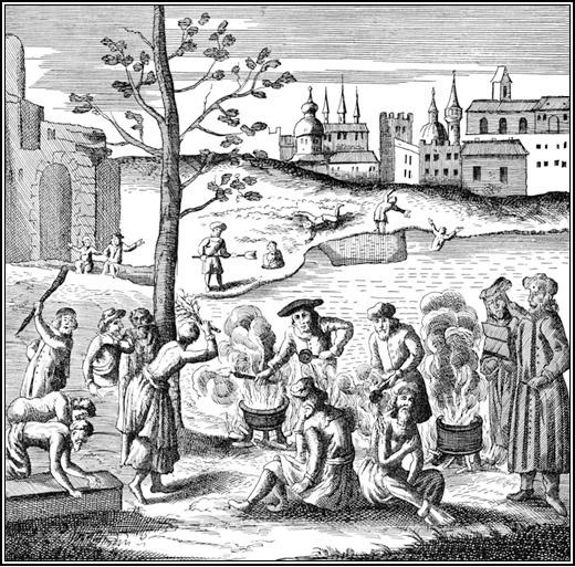 Jews of Salonika do penance for following the pseudo-messiah Shabbatai Tzvi.